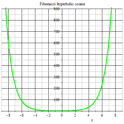 Fibonacci hyperbolic cosine